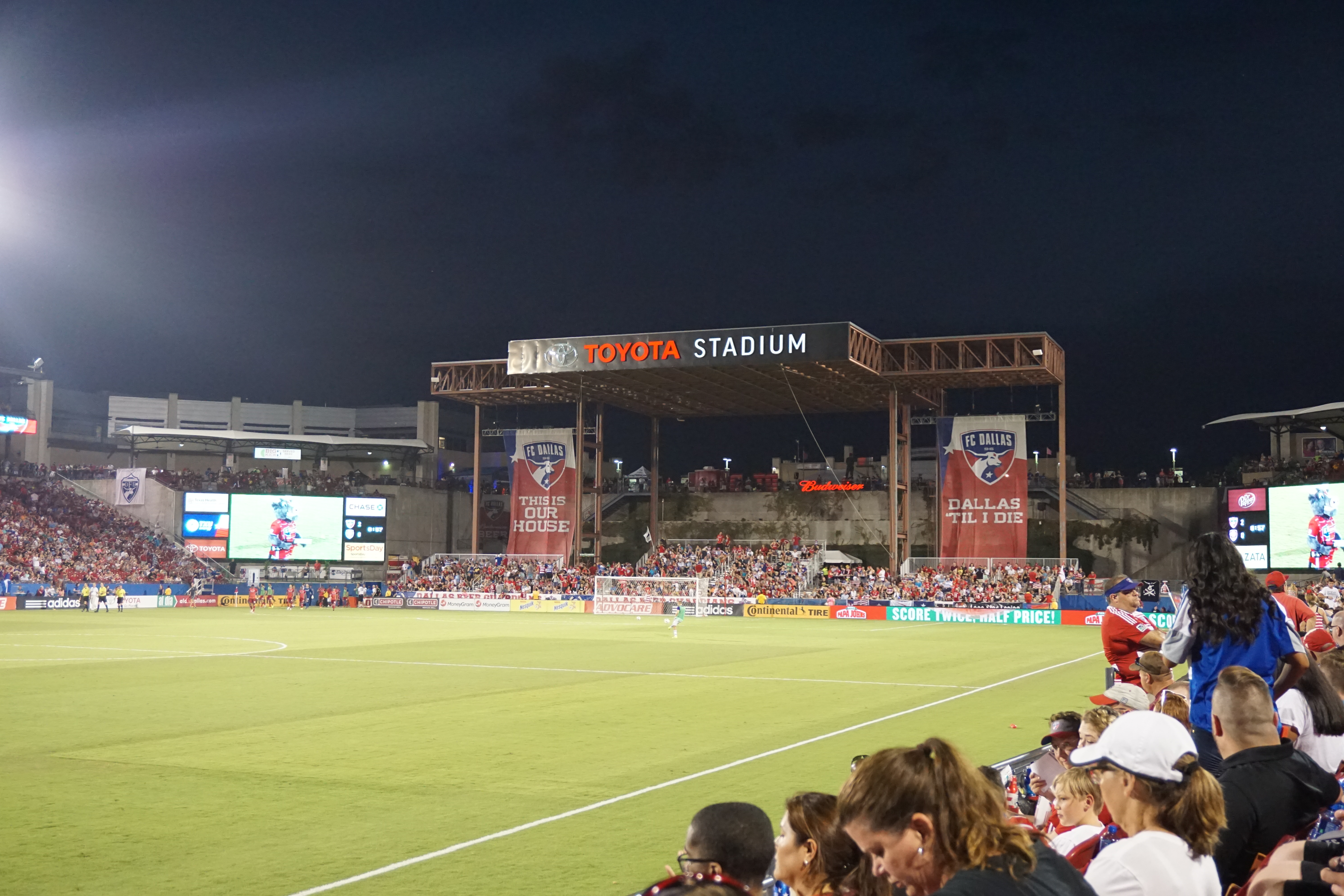 The stadium during half time of the match between FC Dallas and Orlando City SC at Toyota Stadium in Frisco, Texas (United States). Final score: Dallas 4 – 0 Orlando.